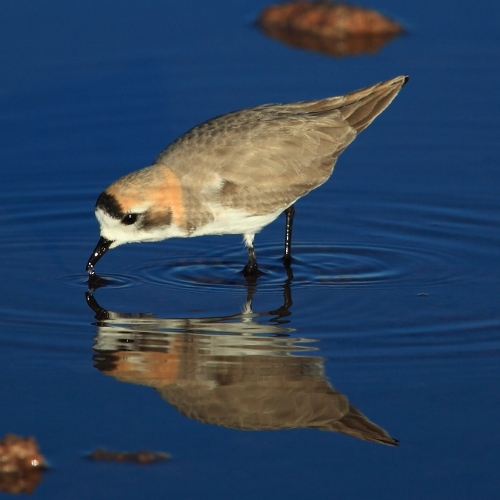 Puna Plover at Laguna Tebenquiche, Salar de Atacama, Chile